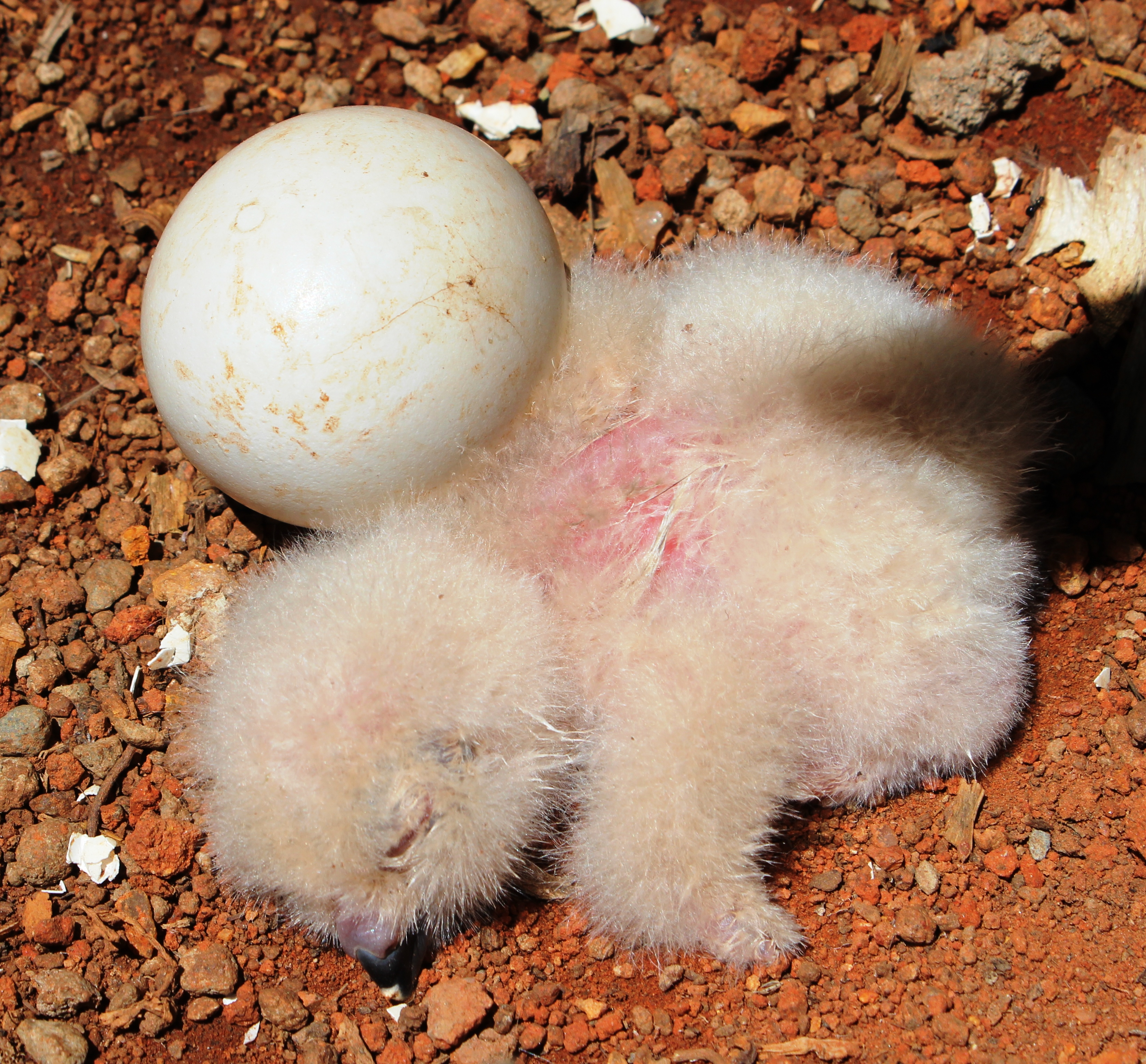 A newly hatched Spotted Eagle Owl in its 'nest' on the ground